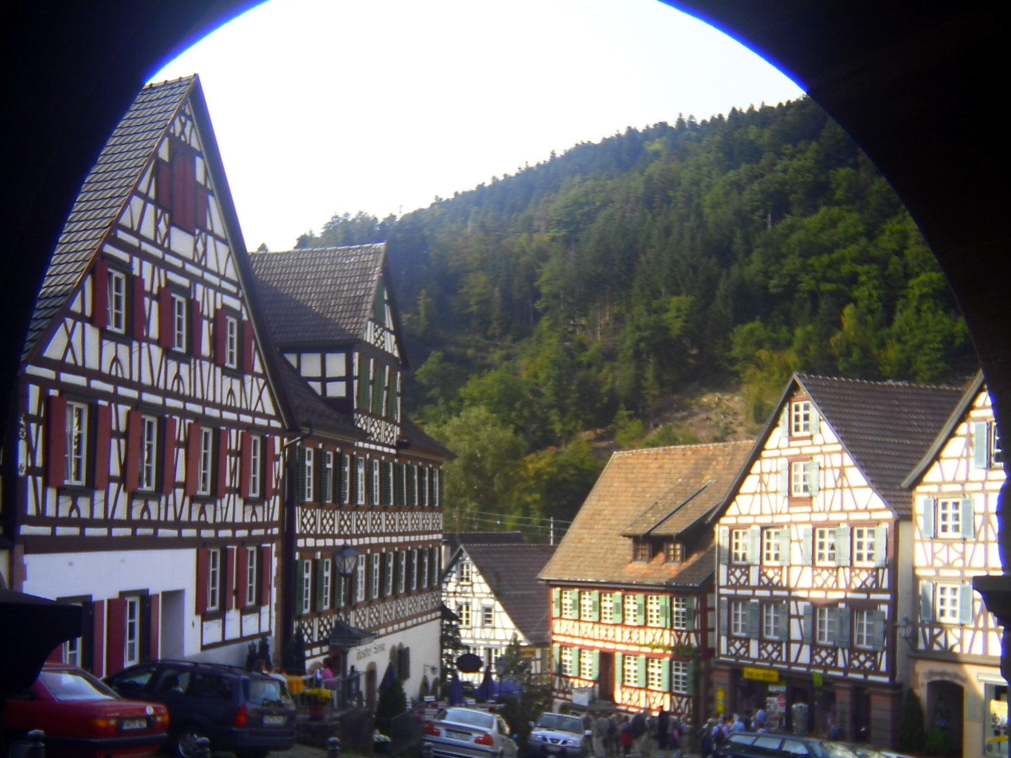 Schiltach, Marketplace out of the townhall